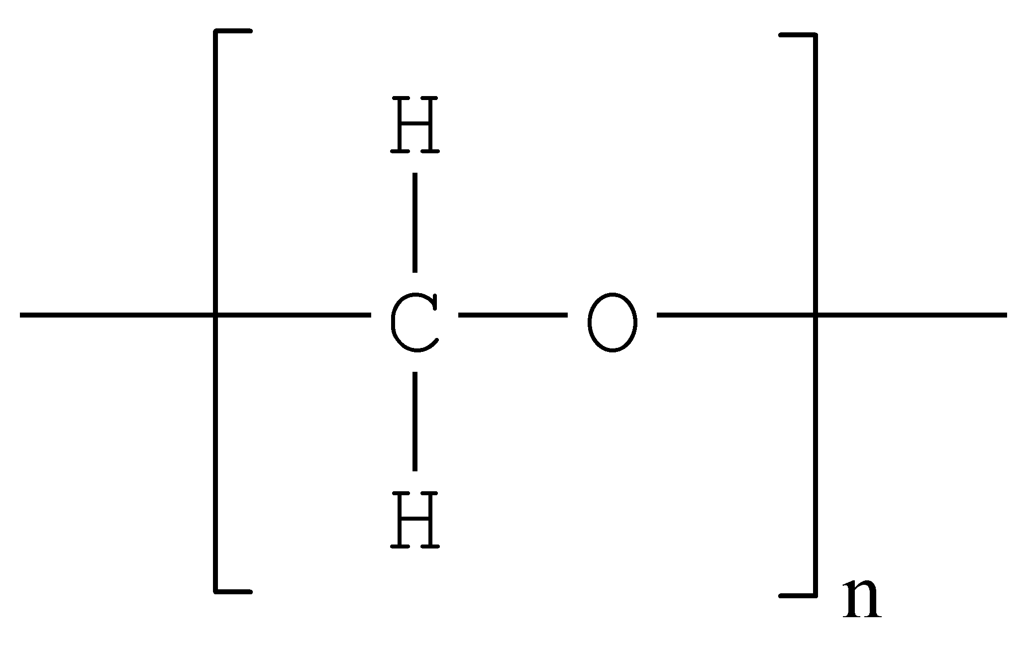 chemical structure of Polyoxymethylene, acetal resin, polytrioxane, polyformaldehyde, paraformaldehyde